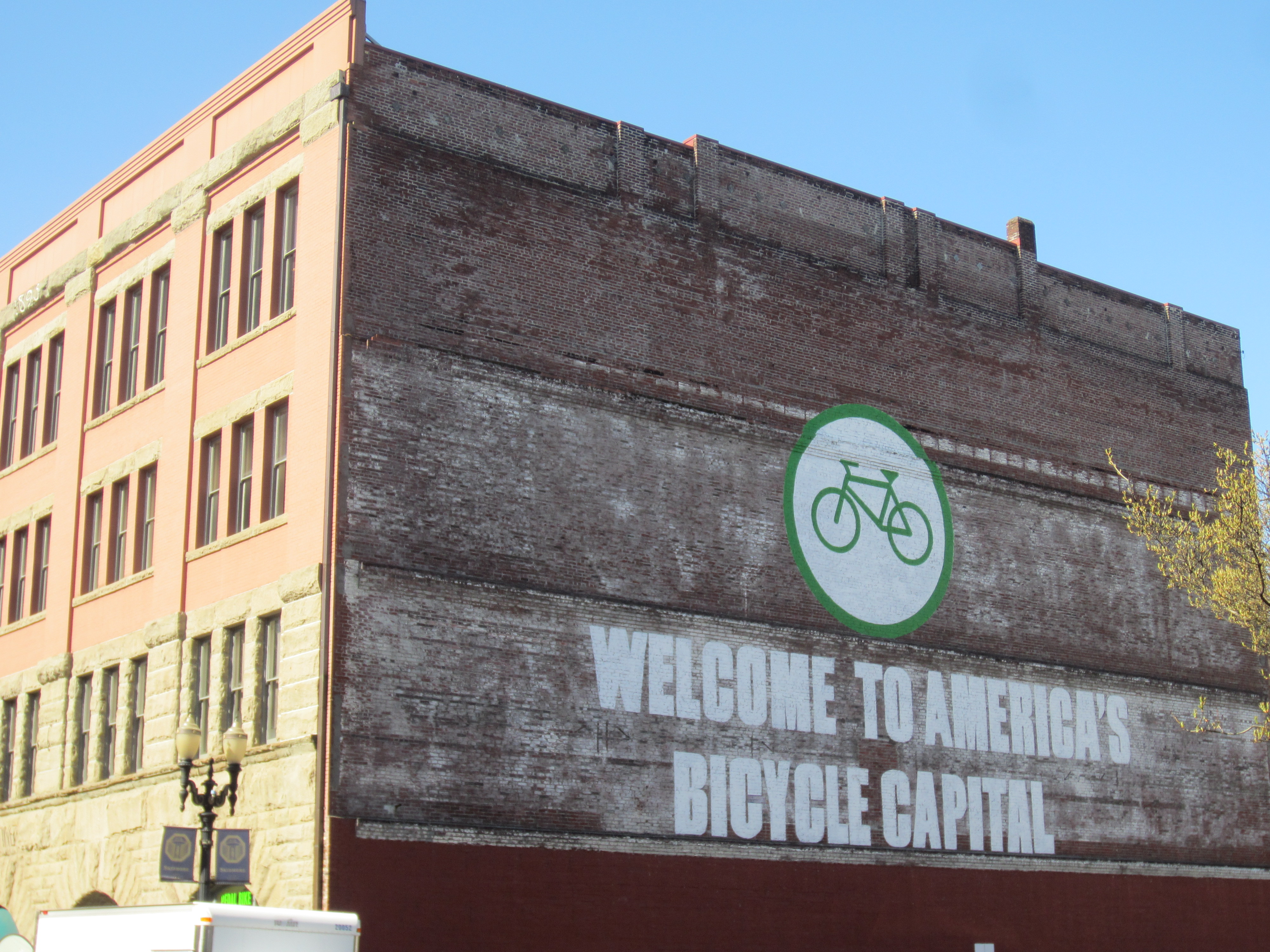 Bicycle capital, Portland, Oregon (2014).JPG